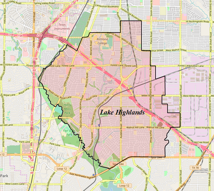 Location map of the Lake Highlands area of Dallas, Texas — Dallas County. was created from OpenStreetMap project data, collected by the community. This map may be incomplete, and may contain errors. Don't rely solely on it for navigation.